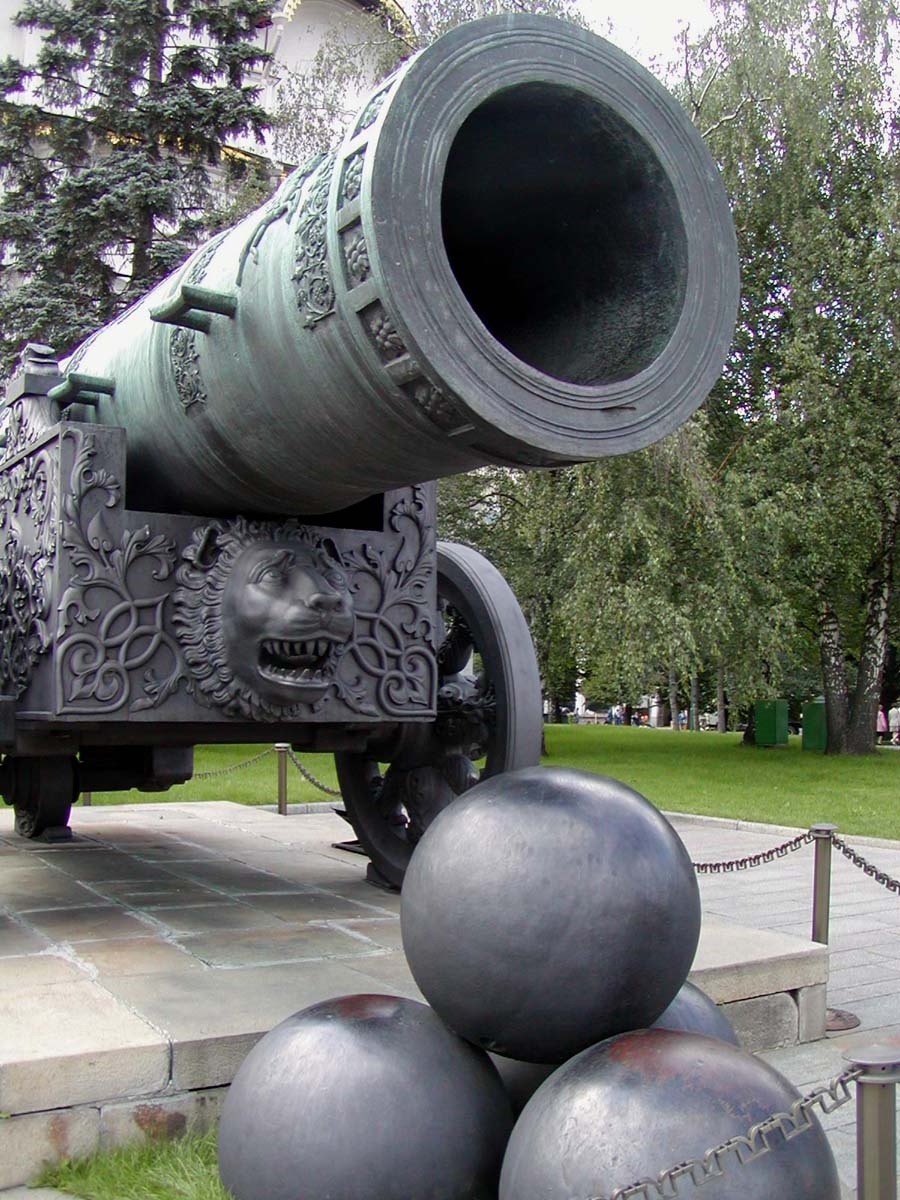 Photo of mouth of Tsar Cannon in Moscow Kremlin